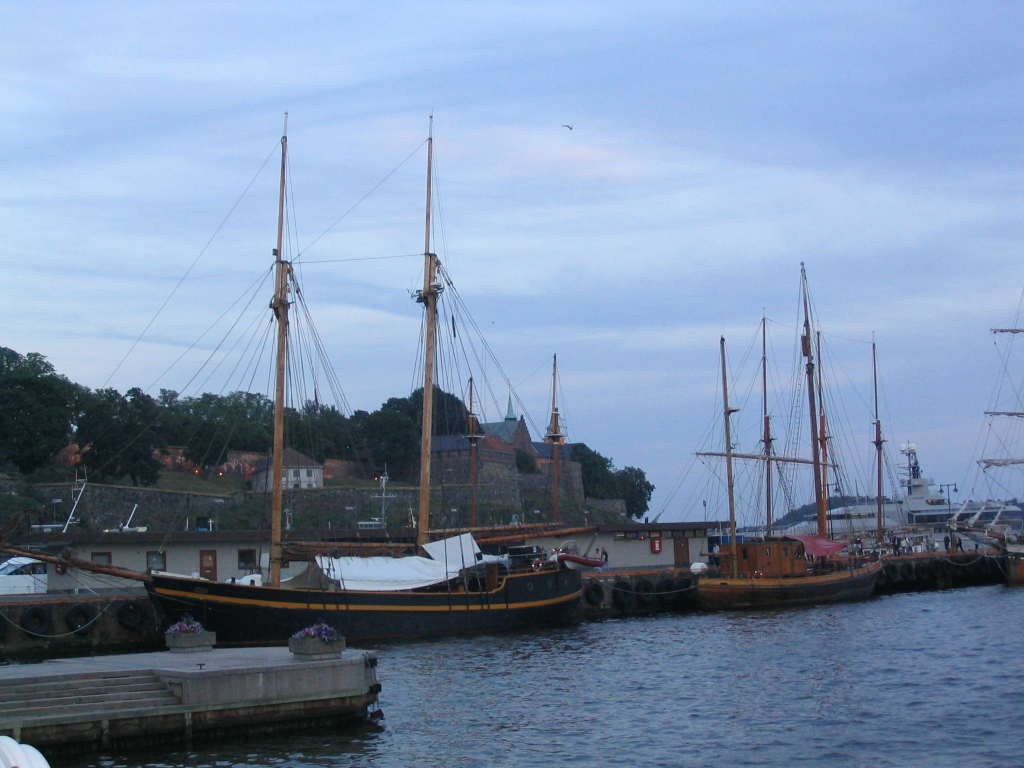 The port of Oslo city